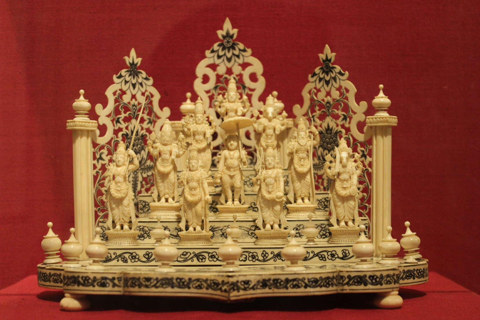 Carved in ivory, these figurines depict Vishnu's 10 'avatars' from Hindu Mythology. This artifact, which is displayed in the National Museum (New Delhi) is from around late 18th Century south India. Image taken by Noman.